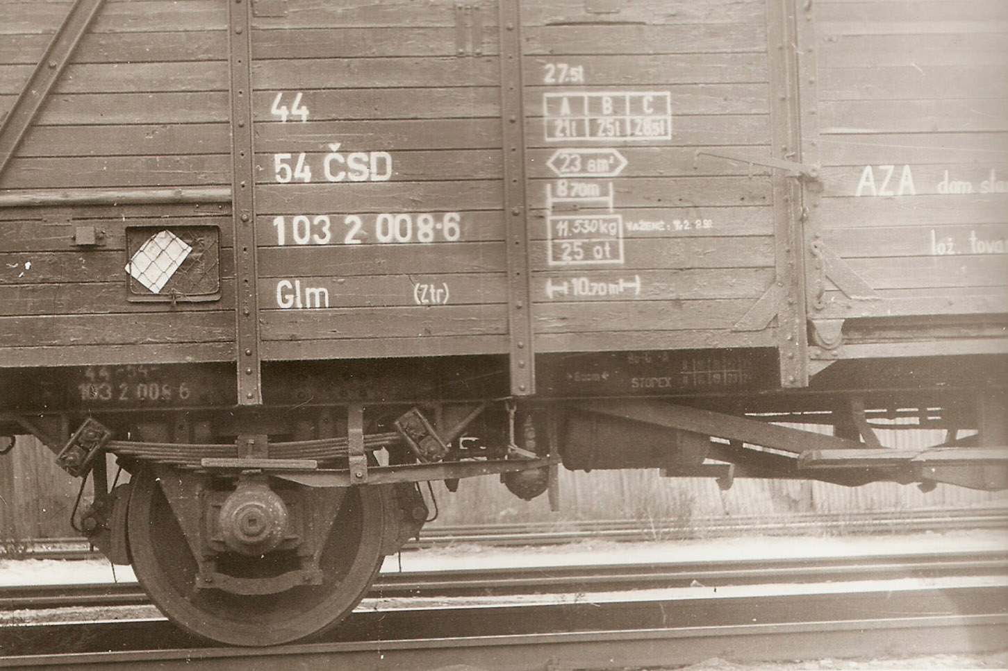 ČSD Class Ztr (Glm) 44 54 103 2 008-6 in Praha Smíchov. Detail of brake distributor Božič with lever for changing the braking force according to load.